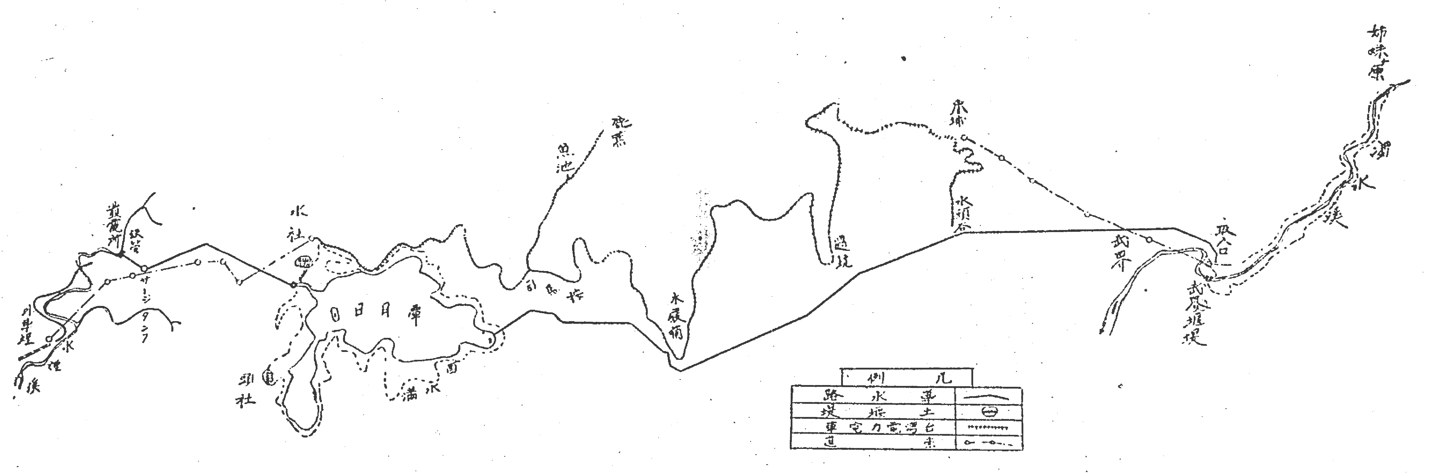 Sun Moon Lake Hydroelectric Power Plan Map